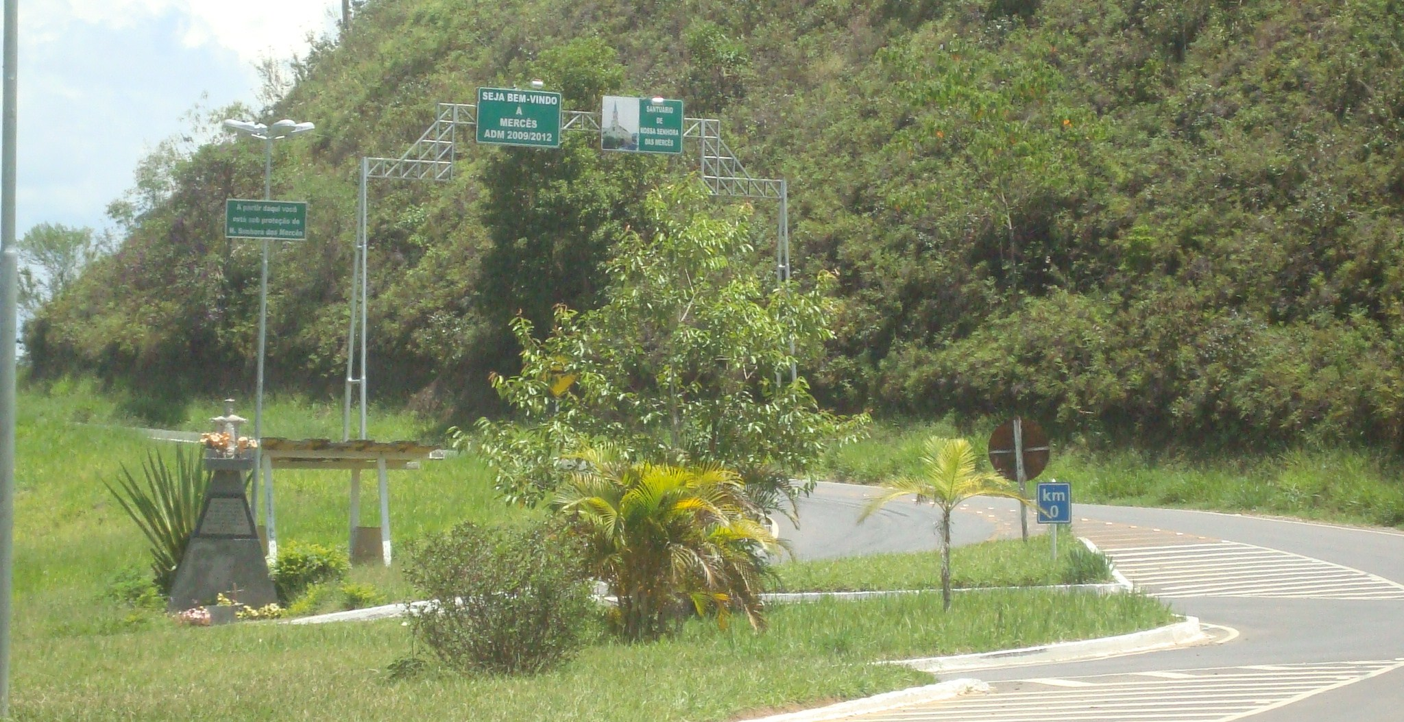 Road AMG-0510 near MGC-265 in Merces, Minas Gerais, Brazil